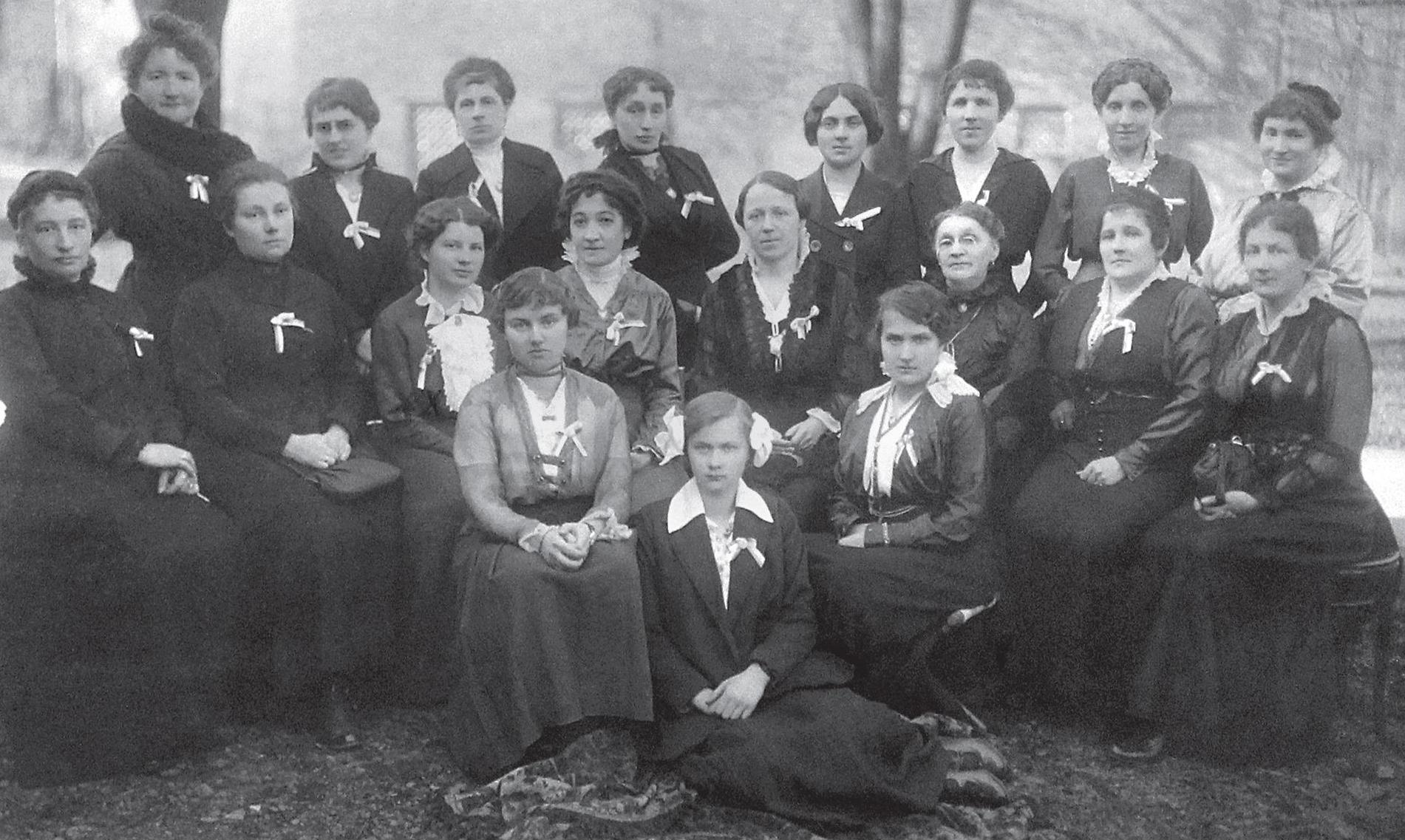 The League of Women's League of Galicia and Silesia (1916) self-help and feminist organization